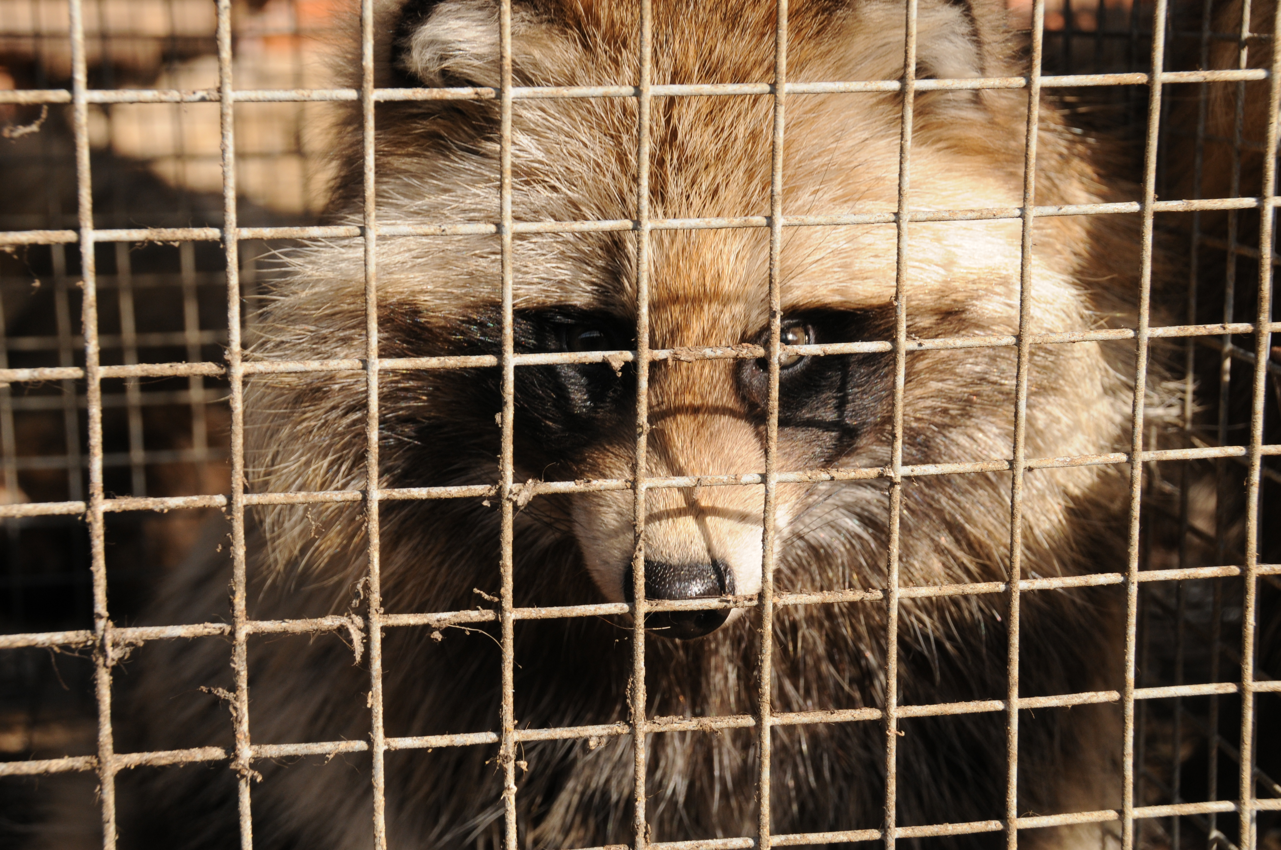 China | 2008 01 | Investigation at a Chinese fur farm.